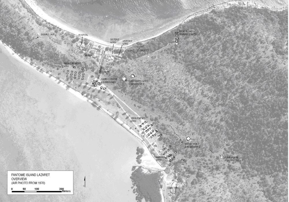 Fantome Island - aerial 1 (2012) - lazaret